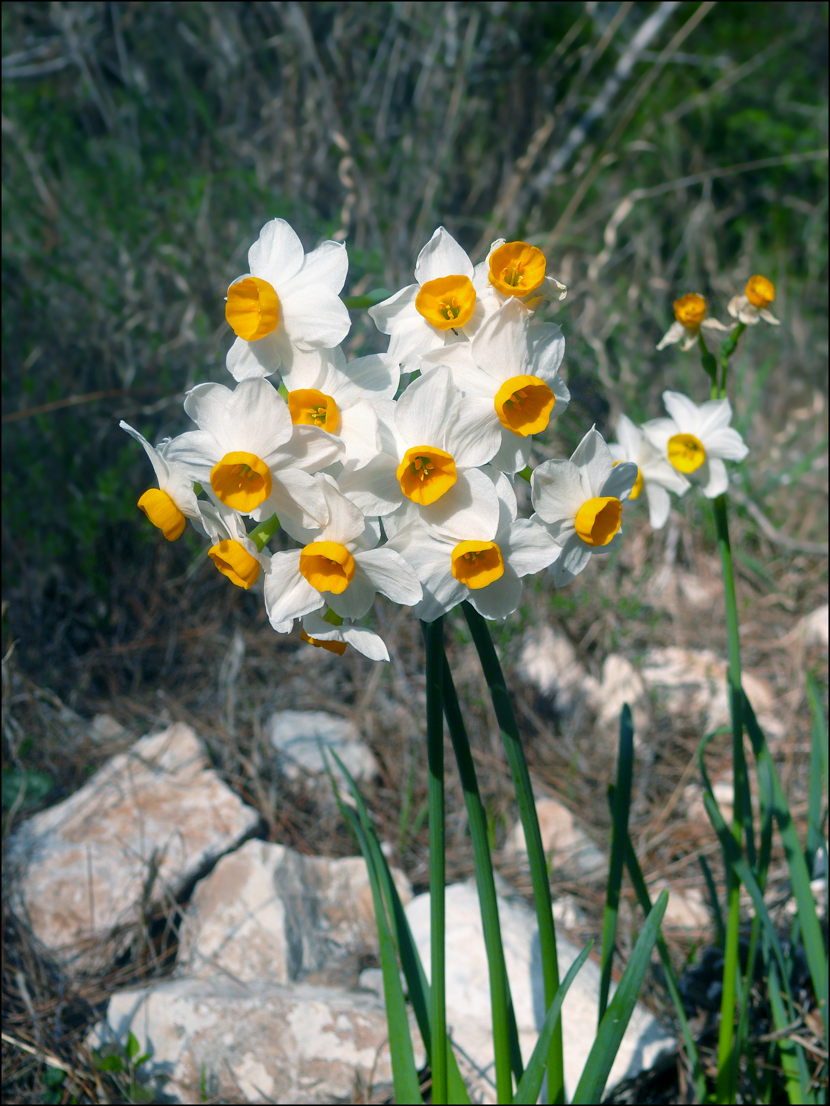 Narcissus tazetta, Yaar Kedoshey Theiman, Israel